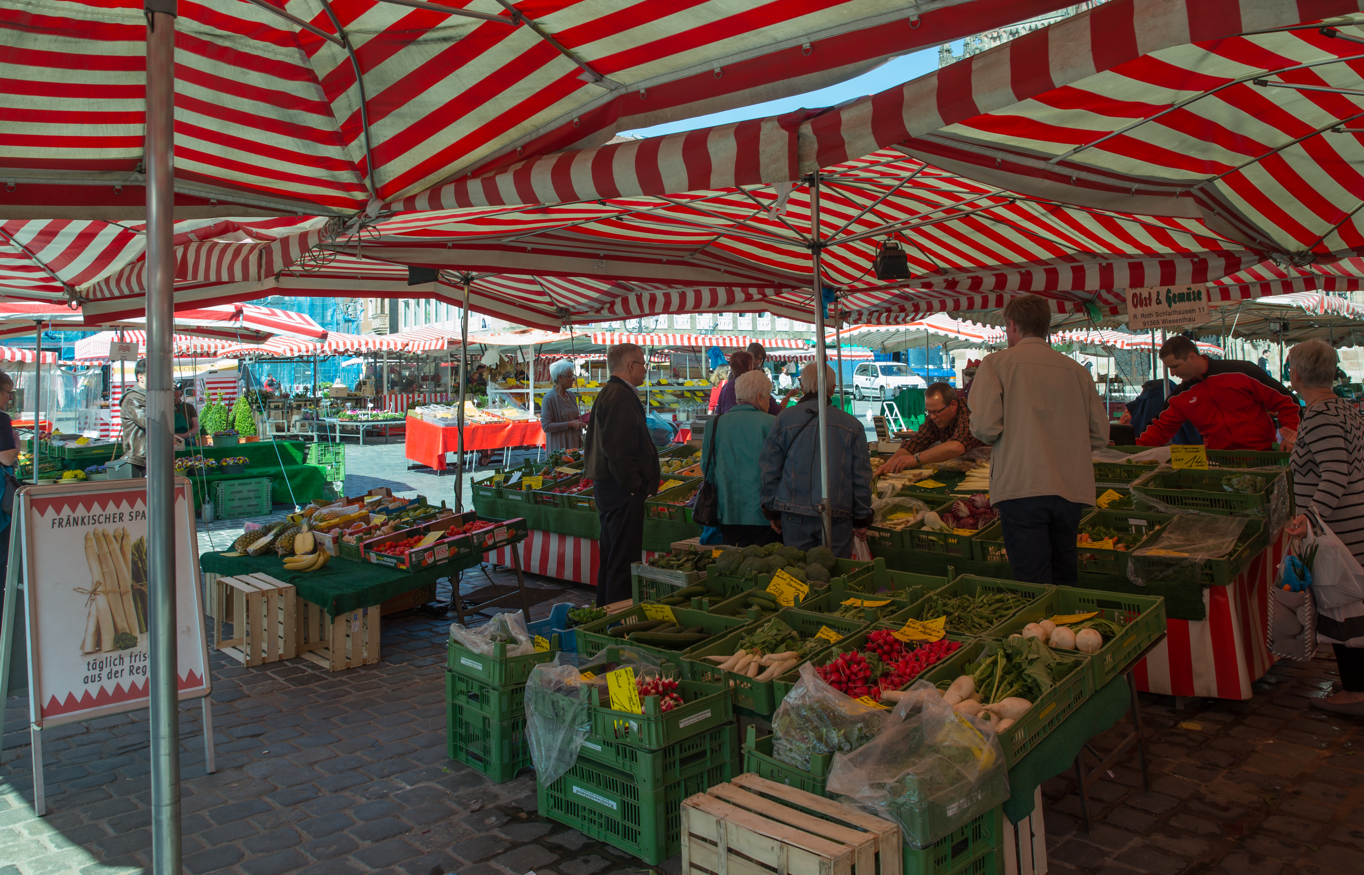 The primary market in Nuremberg.